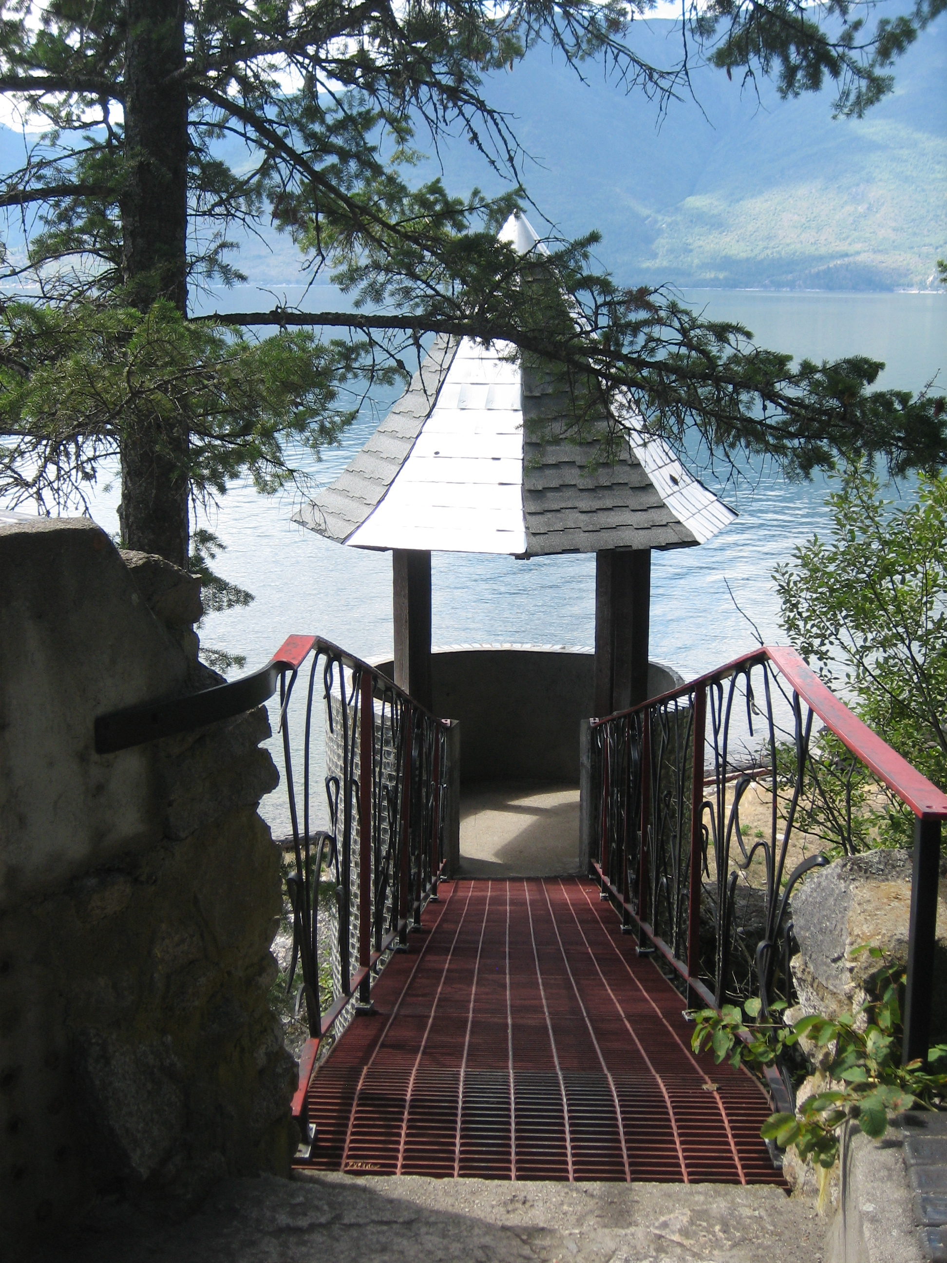 View of the lookout tower, incorrectly known as the "lighthouse", at the Glass House near Boswell, British Columbia. View is to the west, with Kootenay Lake in the background.